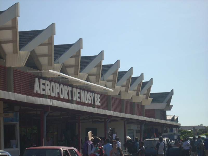 Airport of Nosy Be (Fascene Airport)